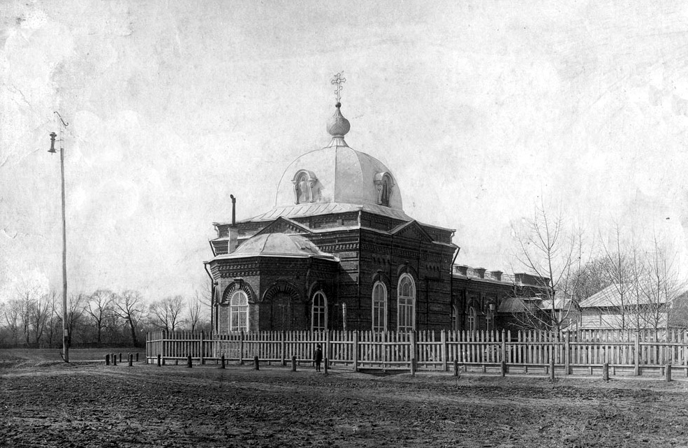 Church of St. Seraphim of Sarov in Kursk